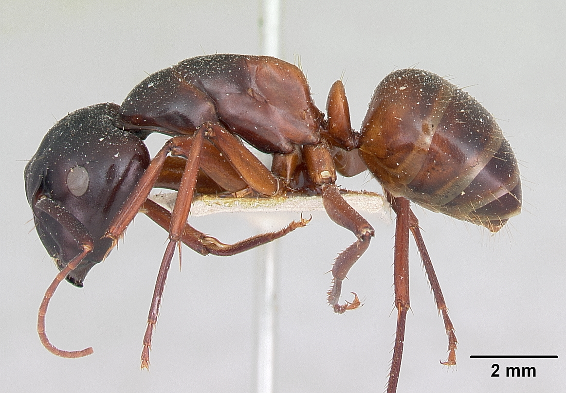 Profile view of ant Camponotus maccooki specimen casent0103419.